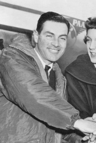 1956 Olympians Art Devlin Tenley Albright Tug Wilson Hayes Alan Press Photo